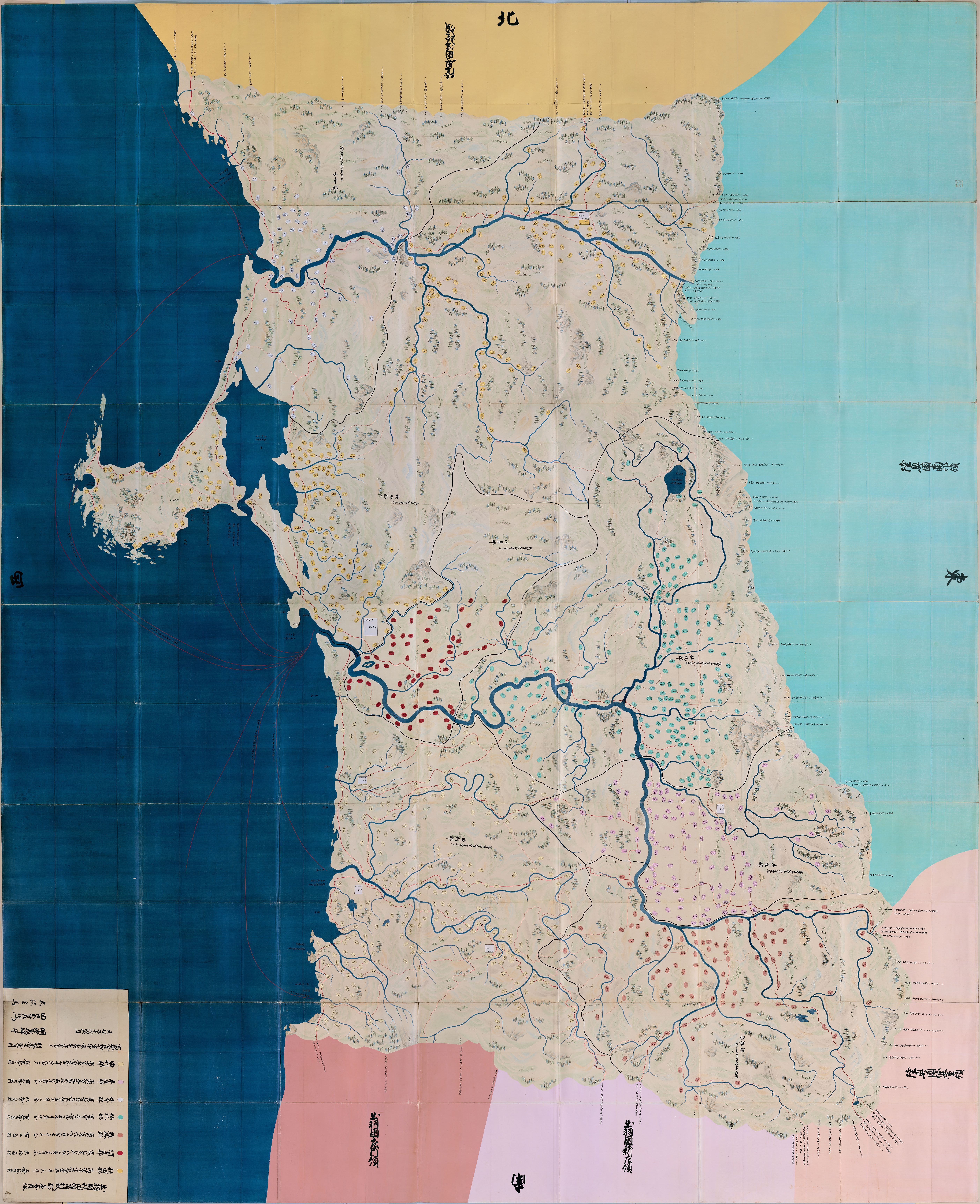 "Akita, the part of Dewa Province" in "Tenpō Kuni Ezu Maps"